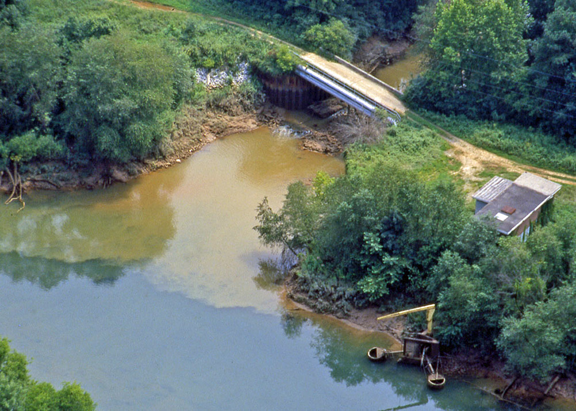 Caption: "Sediment-laden water from a tributary can harm water quality of rivers." View of sediment-laden water from a tributary where construction was taking place entering the clearer water of the Chattahoochee River in Atlanta, Georgia.